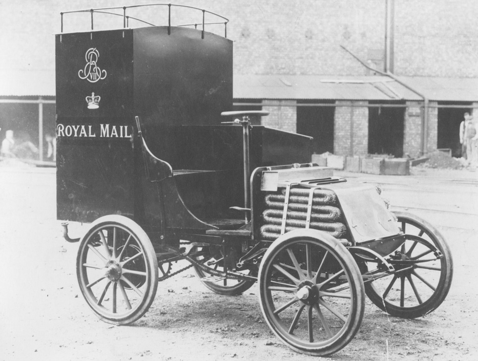 View of a Roots & Venables paraffin oil engined vehicle. Built at the Armstrong Whitworth Motor Car Department, Scotswood Works, Newcastle upon Tyne, early Twentieth Century (TWAM ref. D.VA/32/3). ‘Workshop of the World’ is a phrase often used to describe Britain’s manufacturing dominance during the Nineteenth Century. It’s also a very apt description for the Elswick Works and Scotswood Works of Vickers Armstrong and its predecessor companies. These great factories, situated in Newcastle along the banks of the River Tyne, employed hundreds of thousands of men and women and built a huge variety of products for customers around the globe. The Elswick Works was established by William George Armstrong (later Lord Armstrong) in 1847 to manufacture hydraulic cranes. From these relatively humble beginnings the company diversified into many fields including shipbuilding, armaments and locomotives. By 1953 the Elswick Works covered 70 acres and extended over a mile along the River Tyne. This set of images, mostly taken from our Vickers Armstrong collection, includes fascinating views of the factories at Elswick and Scotswood, the products they produced and the people that worked there. By preserving these archives we can ensure that their legacy lives on. (Copyright) We're happy for you to share this digital image within the spirit of The Commons. Please cite 'Tyne & Wear Archives & Museums' when reusing. Certain restrictions on high quality reproductions and commercial use of the original physical version apply though; if you're unsure please .